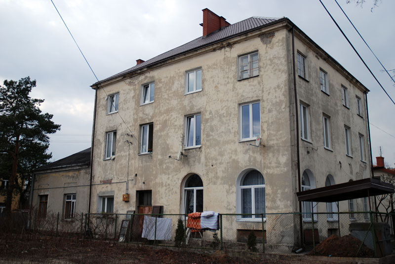 Synagogue in Falenica